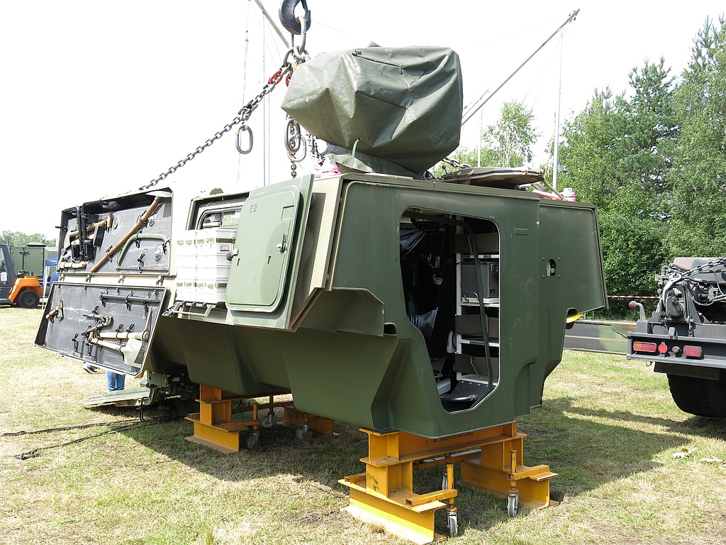 Dismounted mission module (APC) of a German Army Boxer, Open day Munster Training Area 2015